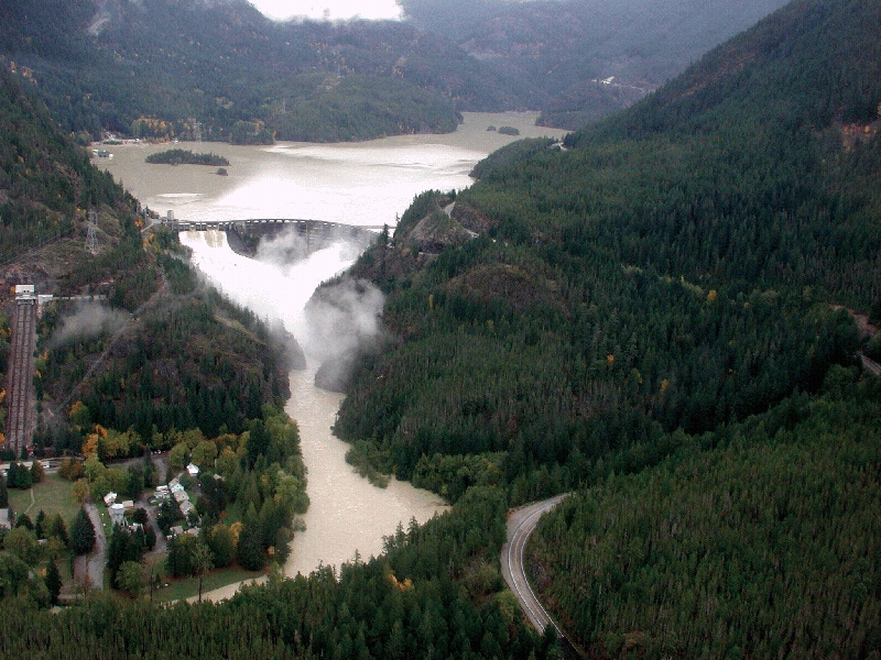 Diablo Dam on the Skagit River, Washington, USA, October 2003, with the river in full flood